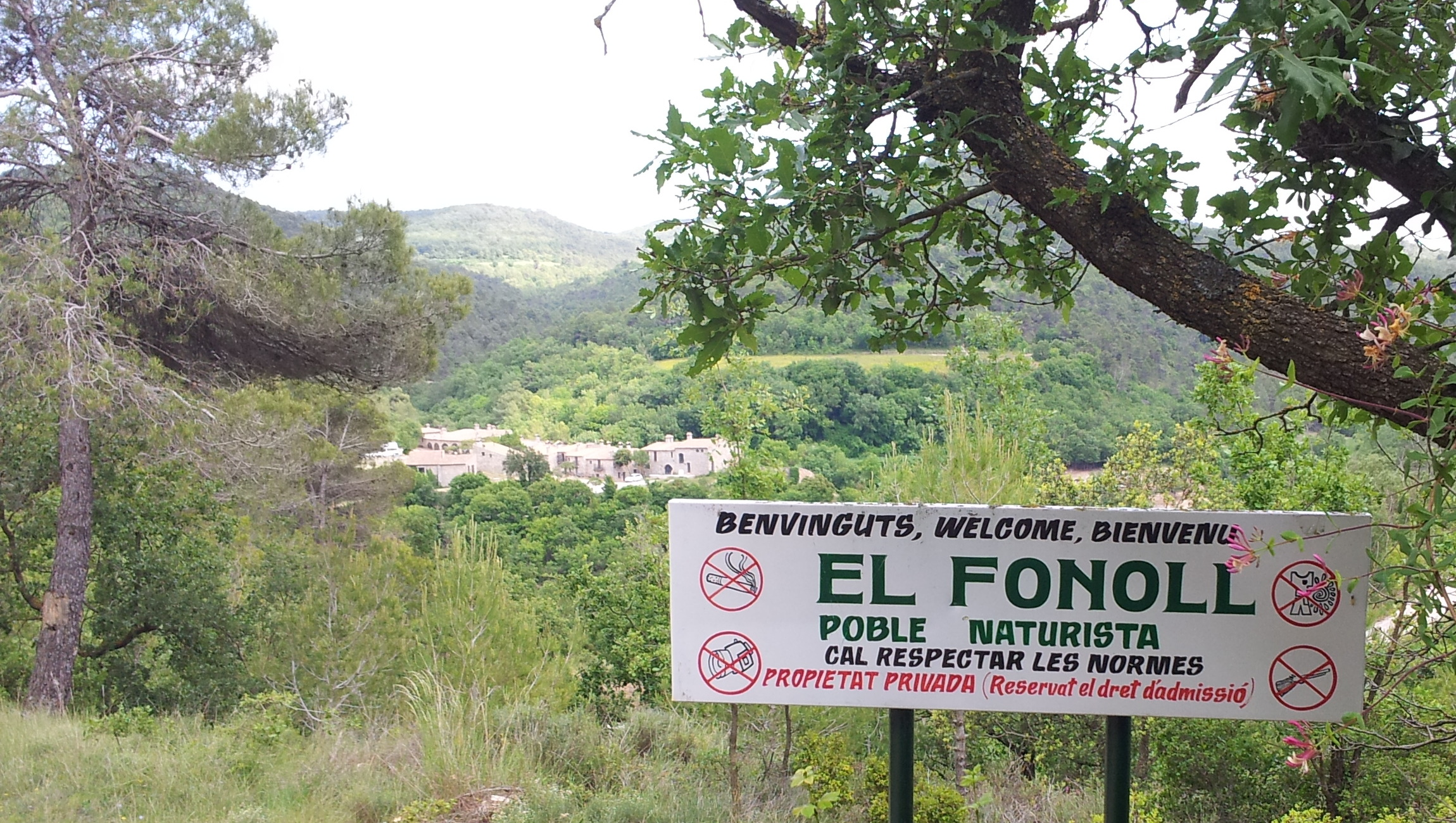 View of El Fonoll